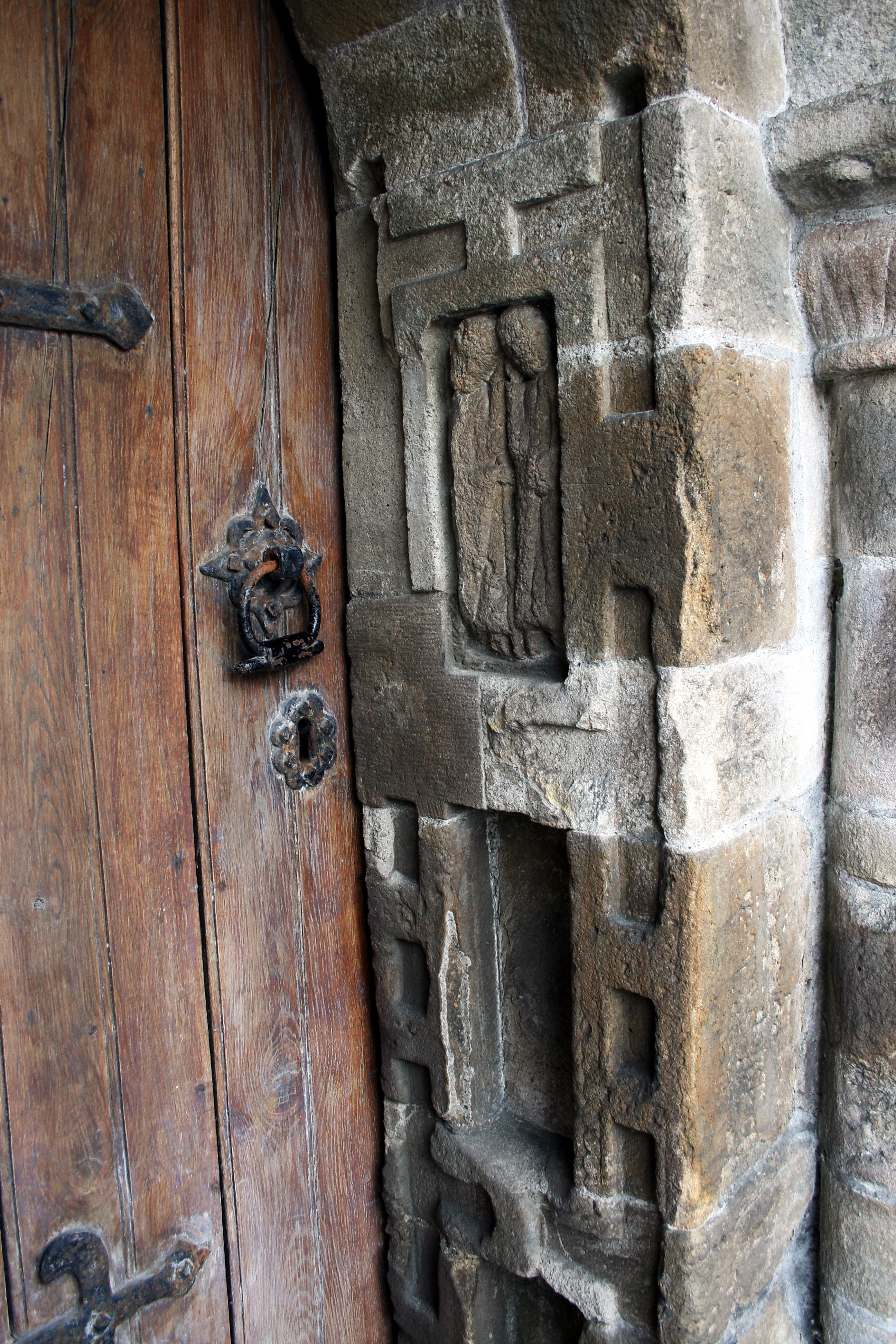 St. Lachtain's Church, Freshford, County Kilkenny, Ireland - door dating from 1731 in portal built in 1100.